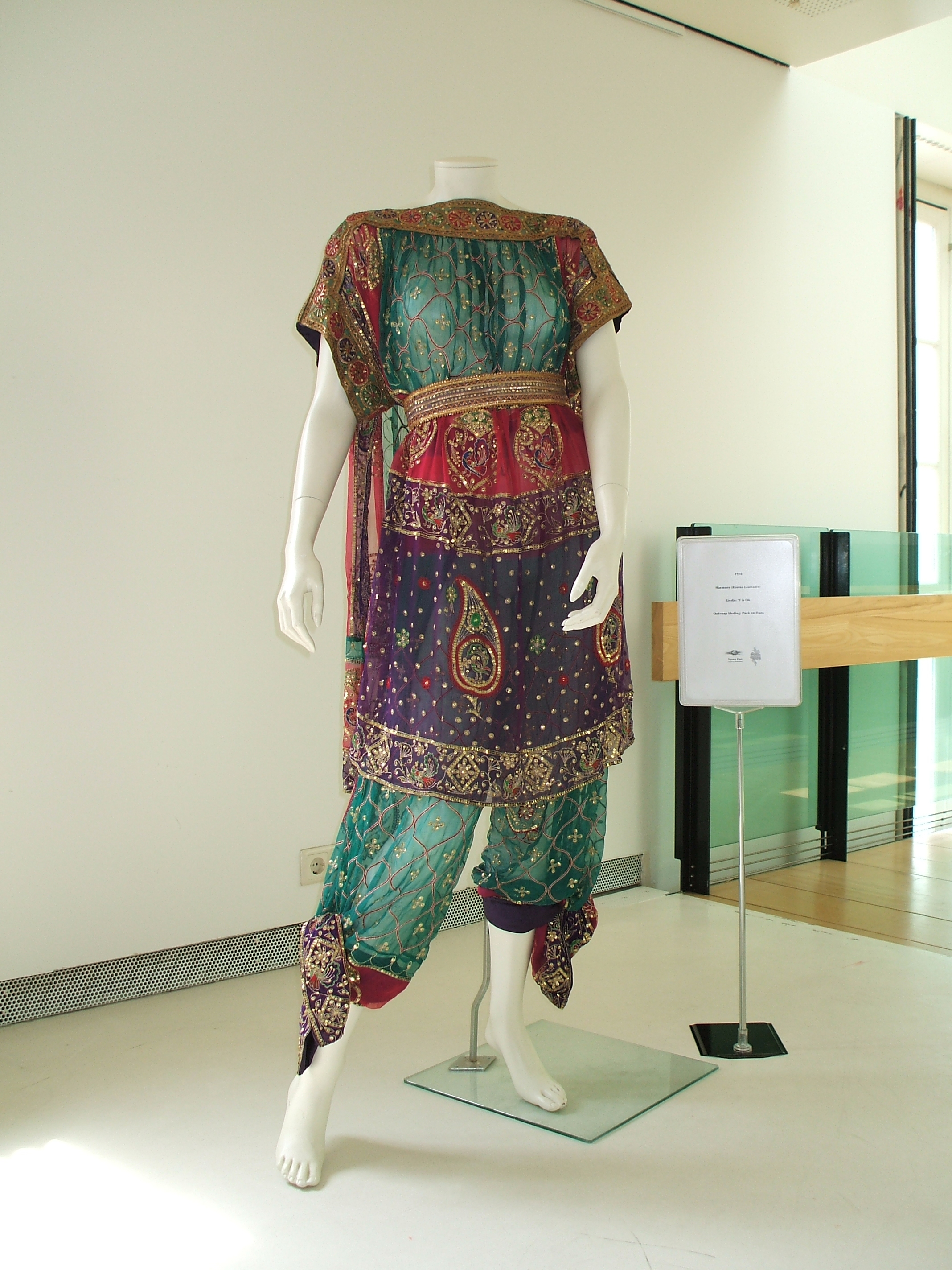 Rosina Lauwaars' (Harmony) 1978 Eurovision Song Contest suit at the "May we have your dress, please?!" exposition for benefit of the Sandra Reemer Foundation